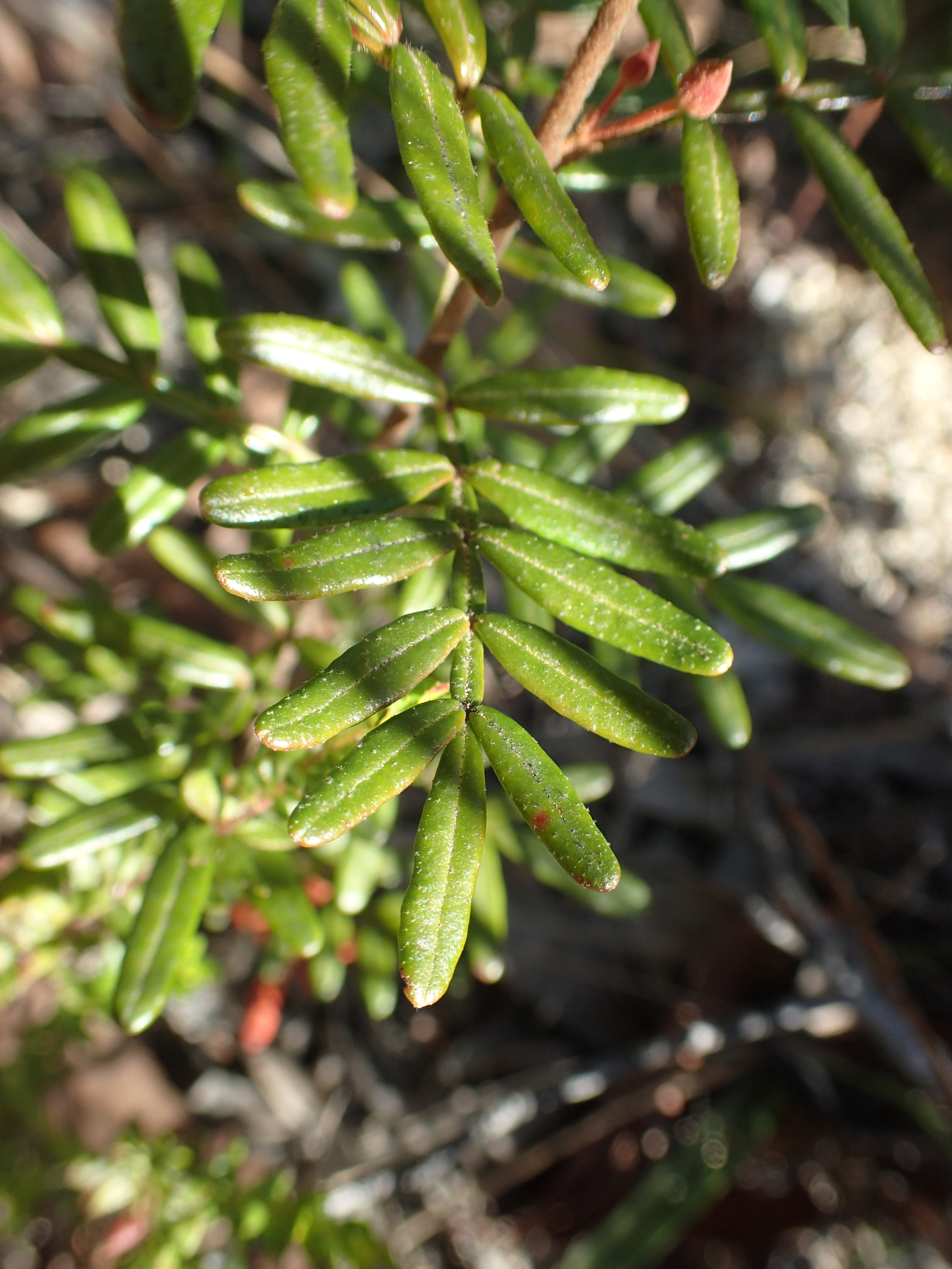 Boronia angustisepala growing near the Dandahra Crags track in the Gibraltar Range National Park